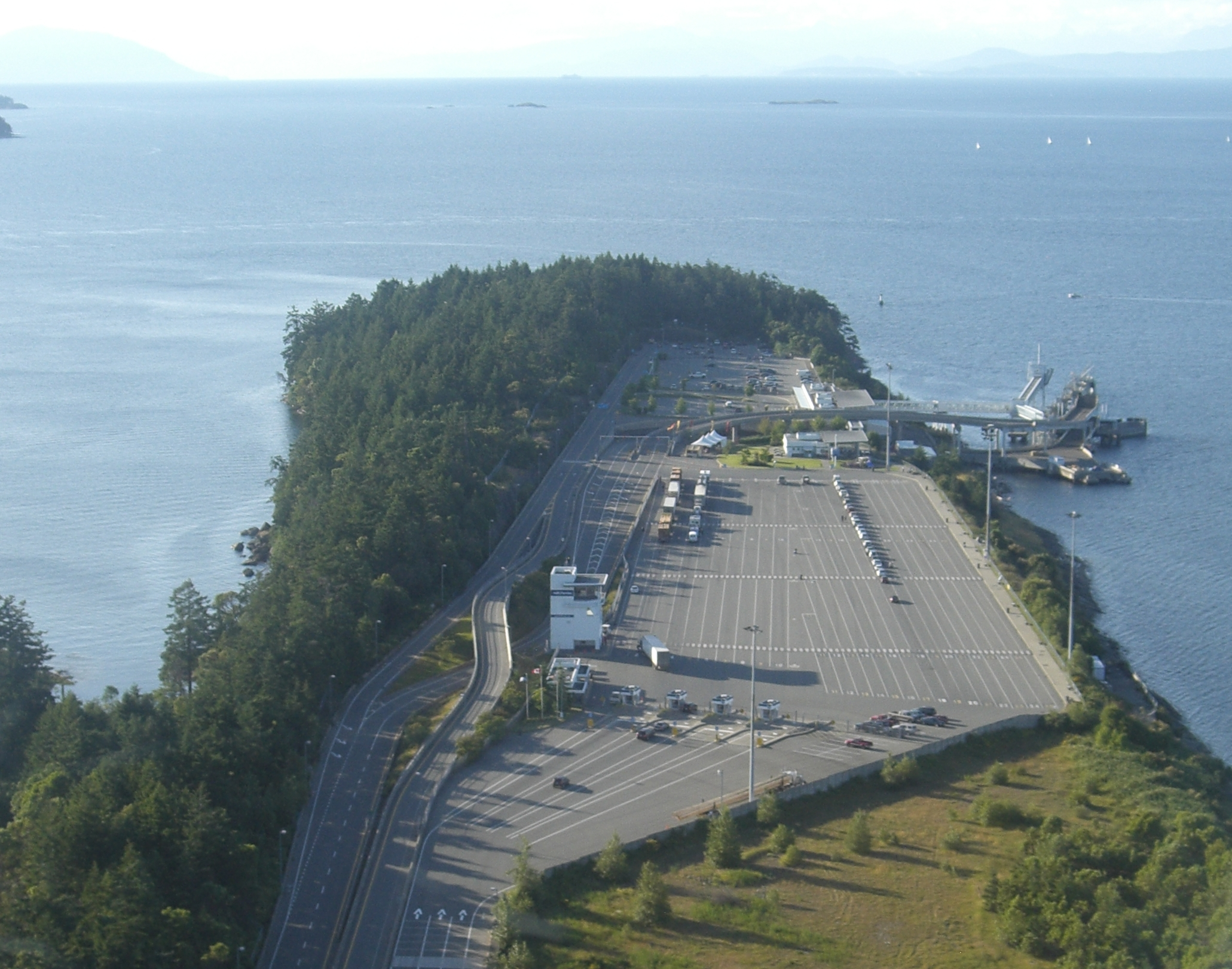 Aerial view of Duke Point Ferry Terminal near Nanaimo BC